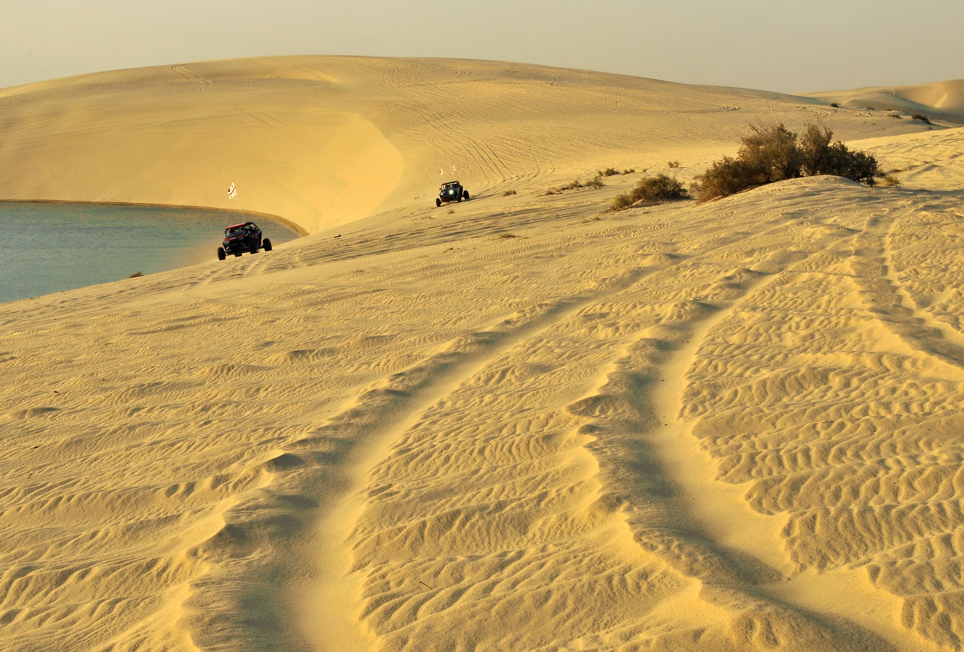 Dunes with 4x4 vehicle tracks. Khor al-Udeid, Qatar